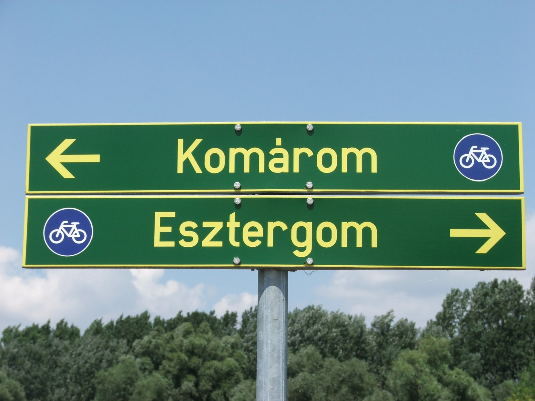 Bikeway sign, Hungary